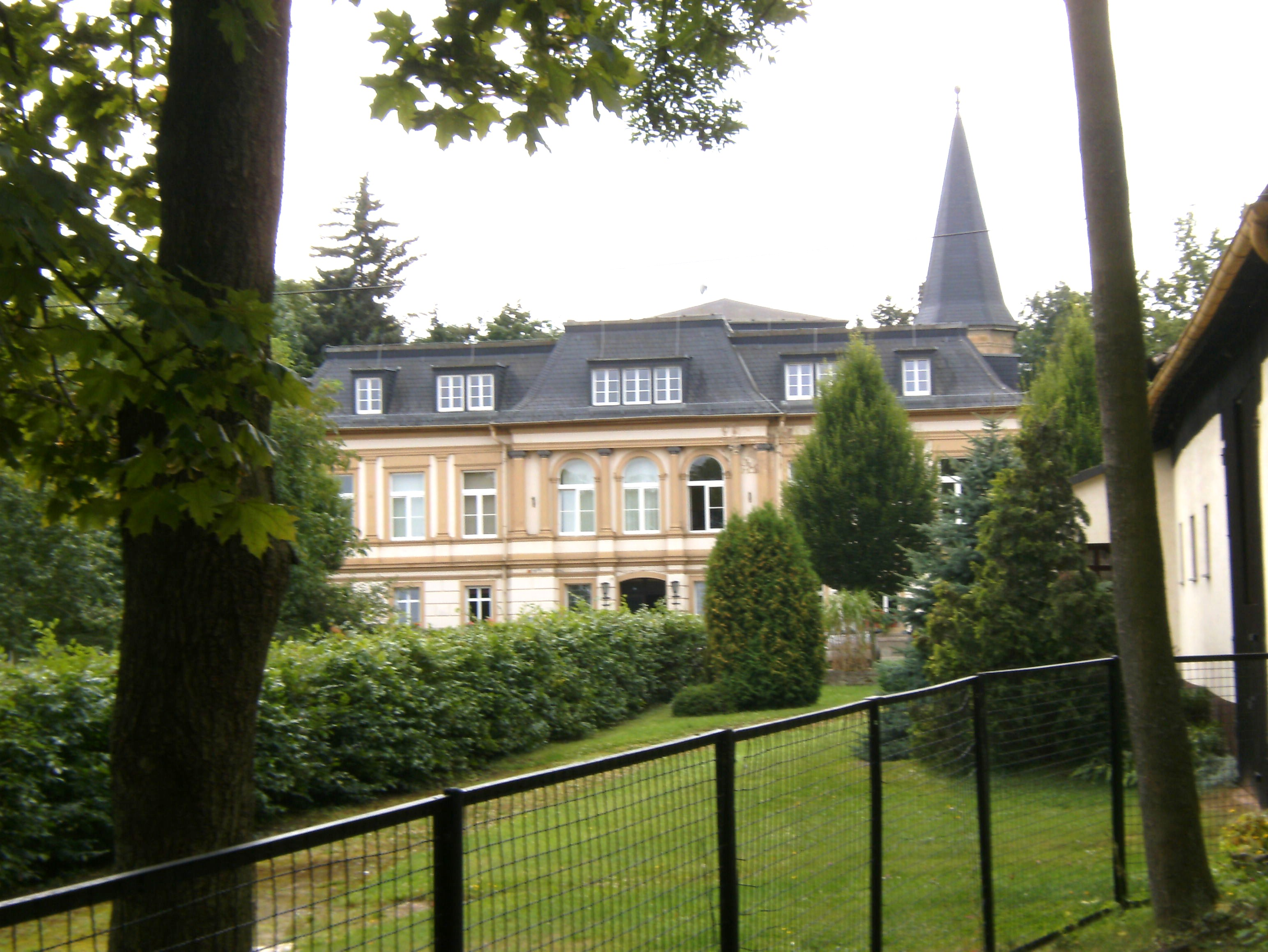 Kaimberg, further manor house.